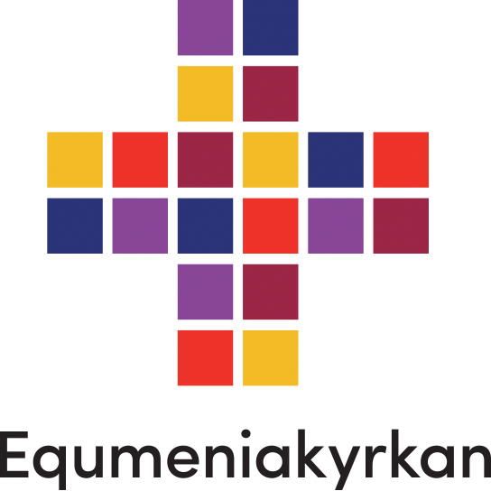 Uniting Church in Sweden's main logotype in color. To be used if File:Equmeniakyrkan färg.png doesn't fit.